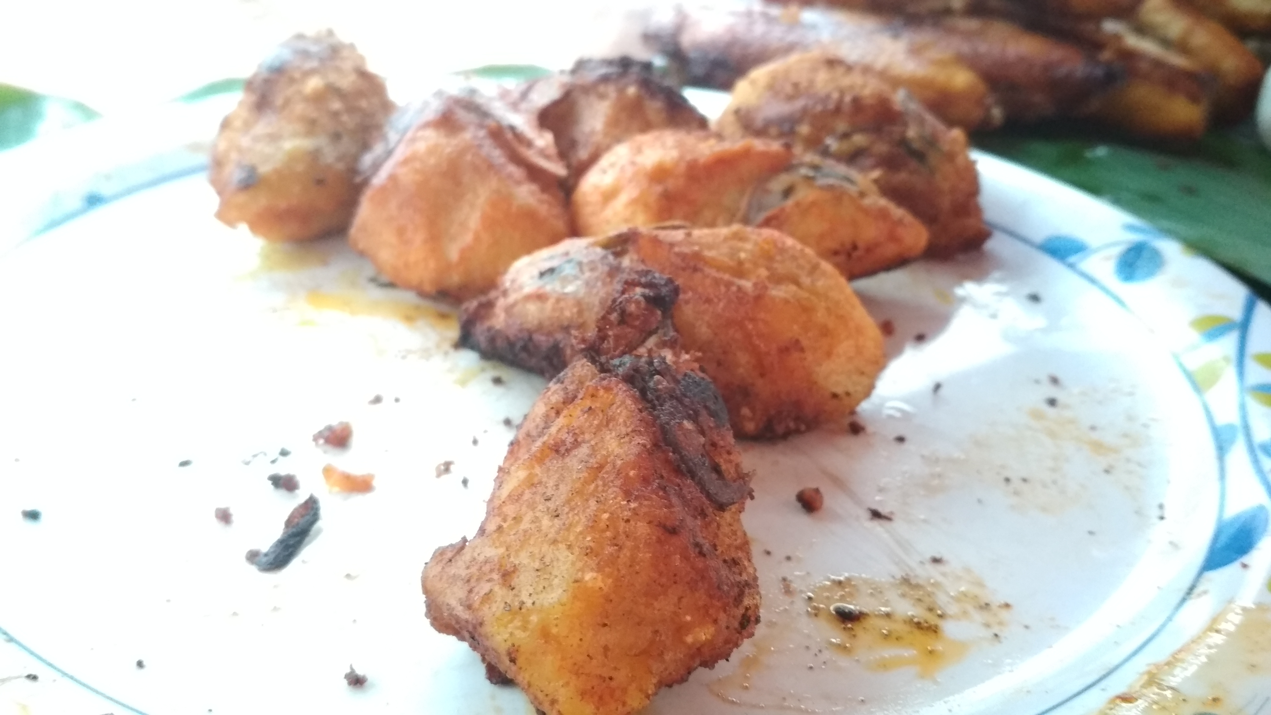 food